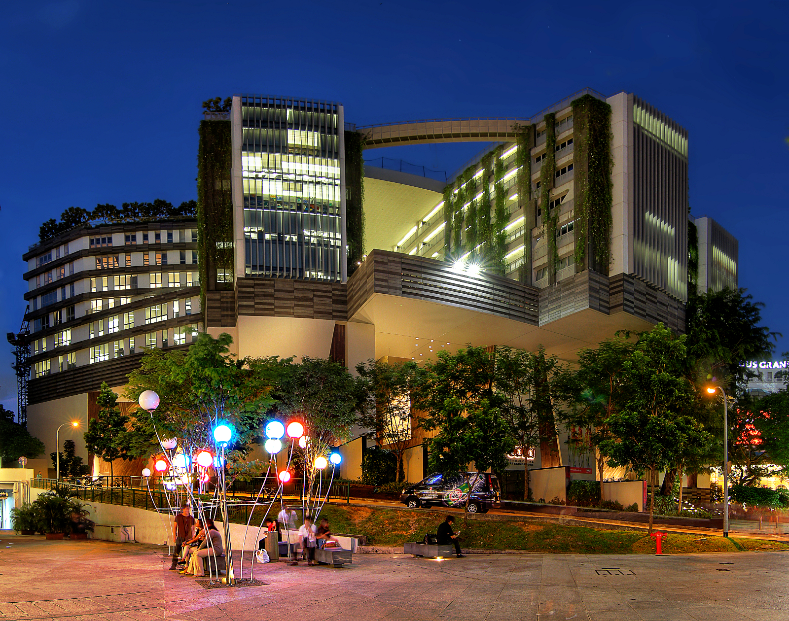 Pano 3 frame, 3 exp each Canon 650D Tokina 11mm-16mm The School of the Arts is Singapore's specialized independent pre-tertiary arts school. It was initiated by Ministry of Information, Communication and the Arts, and caters to youths who have talent and capability in the arts. Its campus is built in the Arts and heritage district of Singapore, adjacent to The Cathay. The school's address is 1 Zubir Said Drive, named after the pioneer Singapore composer of the national anthem, Zubir Said. From 1 November 2012, the School of the Arts will be overseen by a new ministry, the Ministry of Culture, Community and Youth (MCCY) helmed by Mr Lawrence Wong, Acting Minister for Culture, Community and Youth and Senior Minister of State, Ministry of Communications and Information. - Wikipedia